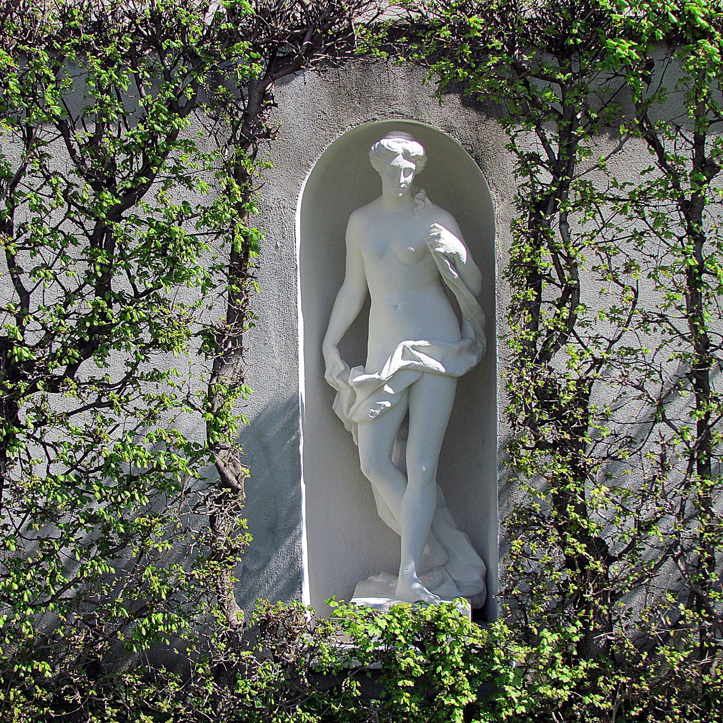 Niche at Belvedere, Wien